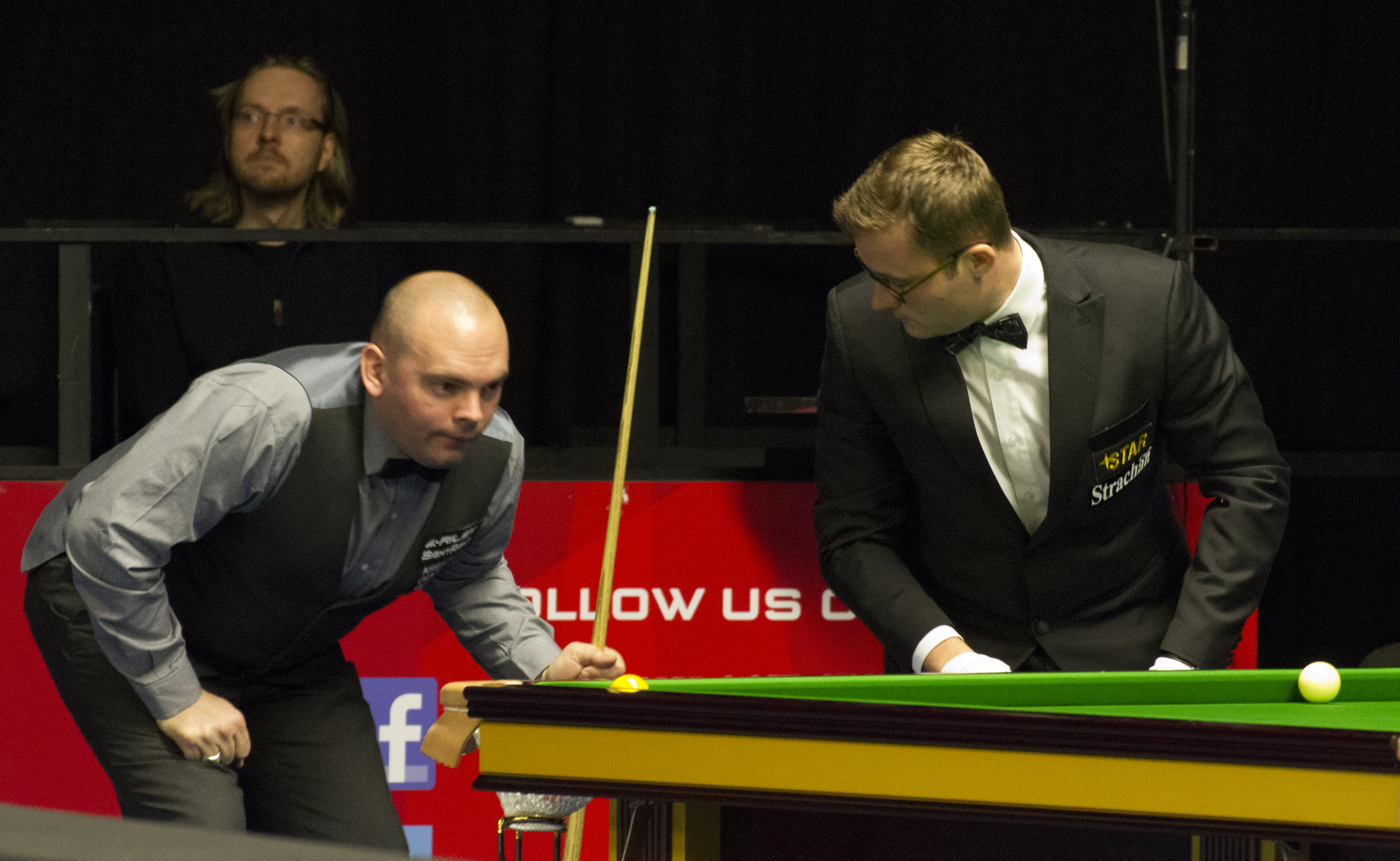 Round of last 16 Mark Allen vs. Shaun Murphy (TV-Table) Joe Perry vs. Ronnie O'Sullivan Ryan Day vs. Alfie Burden Liang Wenbo vs. Stuart Bingham